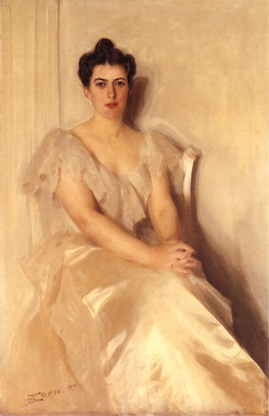 Wife of President Grover Cleveland